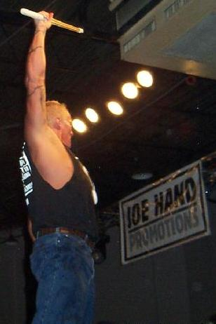 I took this picture at the New Alhambra Arena when ECW came back in 06